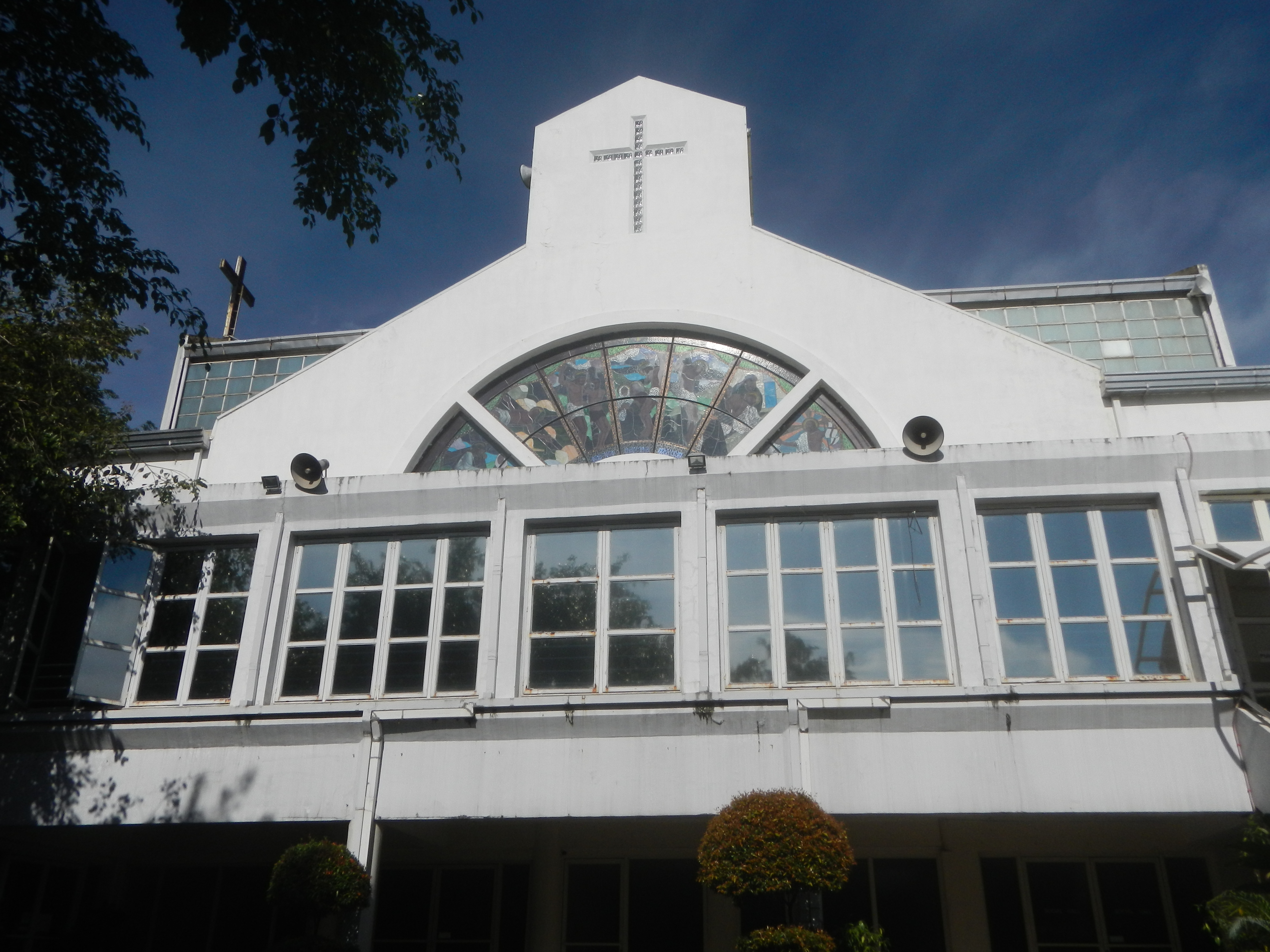 Statues of Saint Martin de Porres in the Philippines Martin de Porres on stained-glass windows San Martin de Porres Parish Church (United Hills Village, Parañaque City) Narra Street April 29, 1990 Solemn Dedication East Service Road (Bicutan, Taguig City-Parañaque City) East Service Road 14°28'8"N 121°2'43"E List of barangays of Metro Manila, Legislative districts of Parañaque 1st District, Districts and barangays, San Martin de Porres 14°28'54"N 121°2'33"E Parañaque City (Note: Judge Florentino Floro, the owner, to repeat, Donor Florentino Floro of all these photos hereby donate gratuitously, freely and unconditionally all these photos to and for Wikimedia Commons, exclusively, for public use of the public domain, and again without any condition whatsoever).